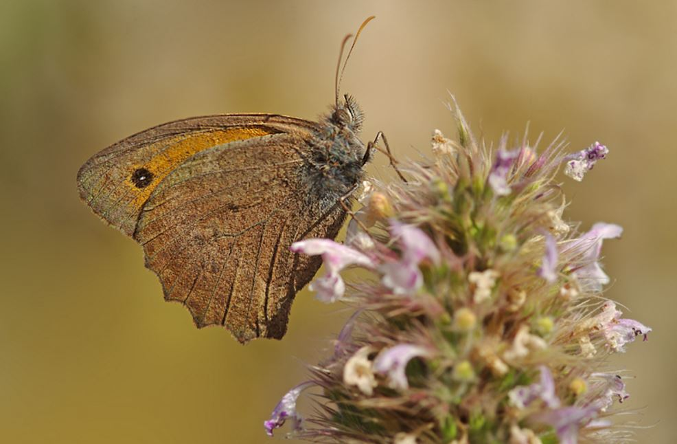 Oriental meadow brown (Hyponephele lupinus). Erdemli - Mersin, Turkey.